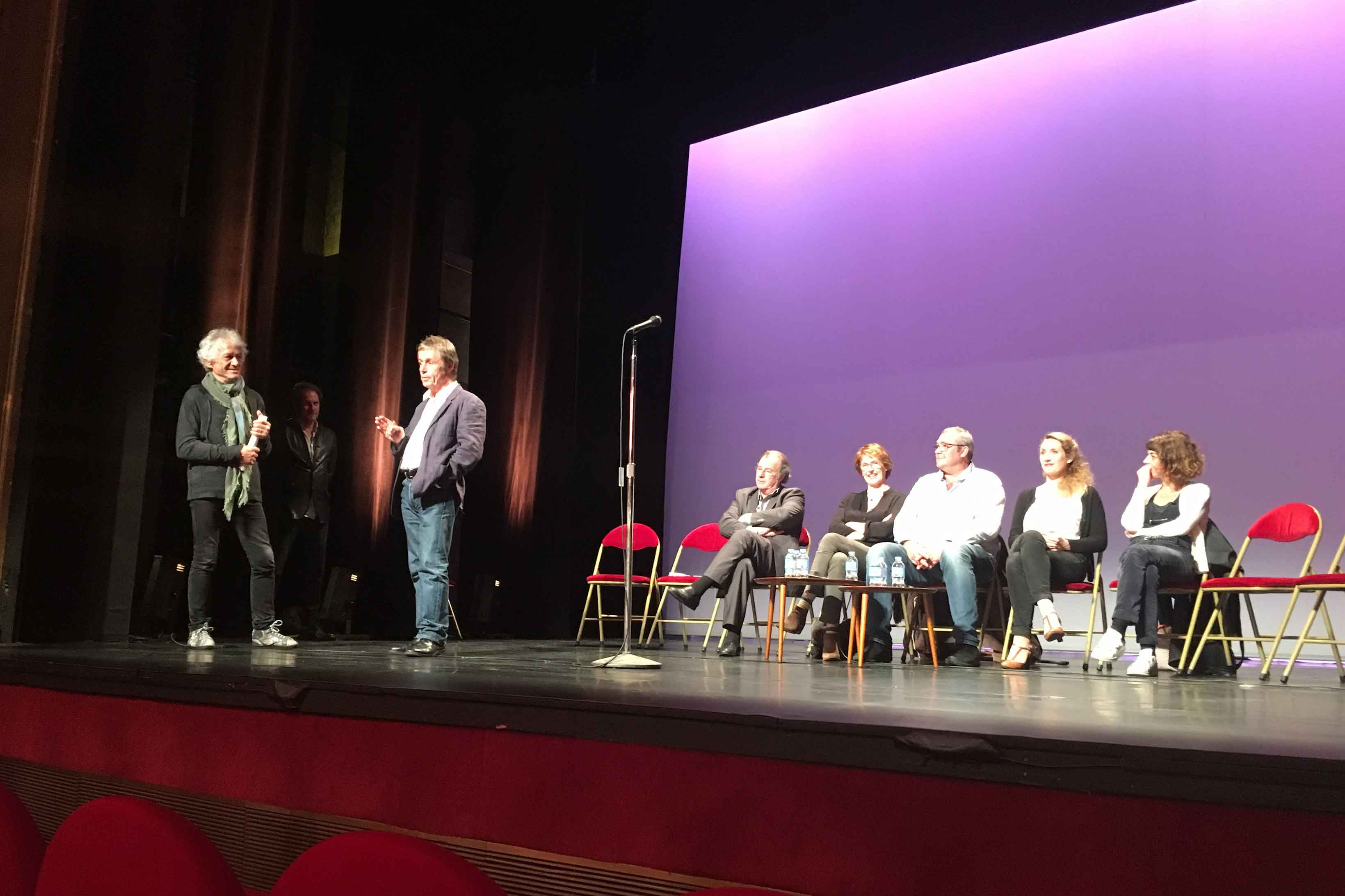 Conférence de presse de la pièce Mariage et Châtiment. Jean Luc Moreau et David Pharao.